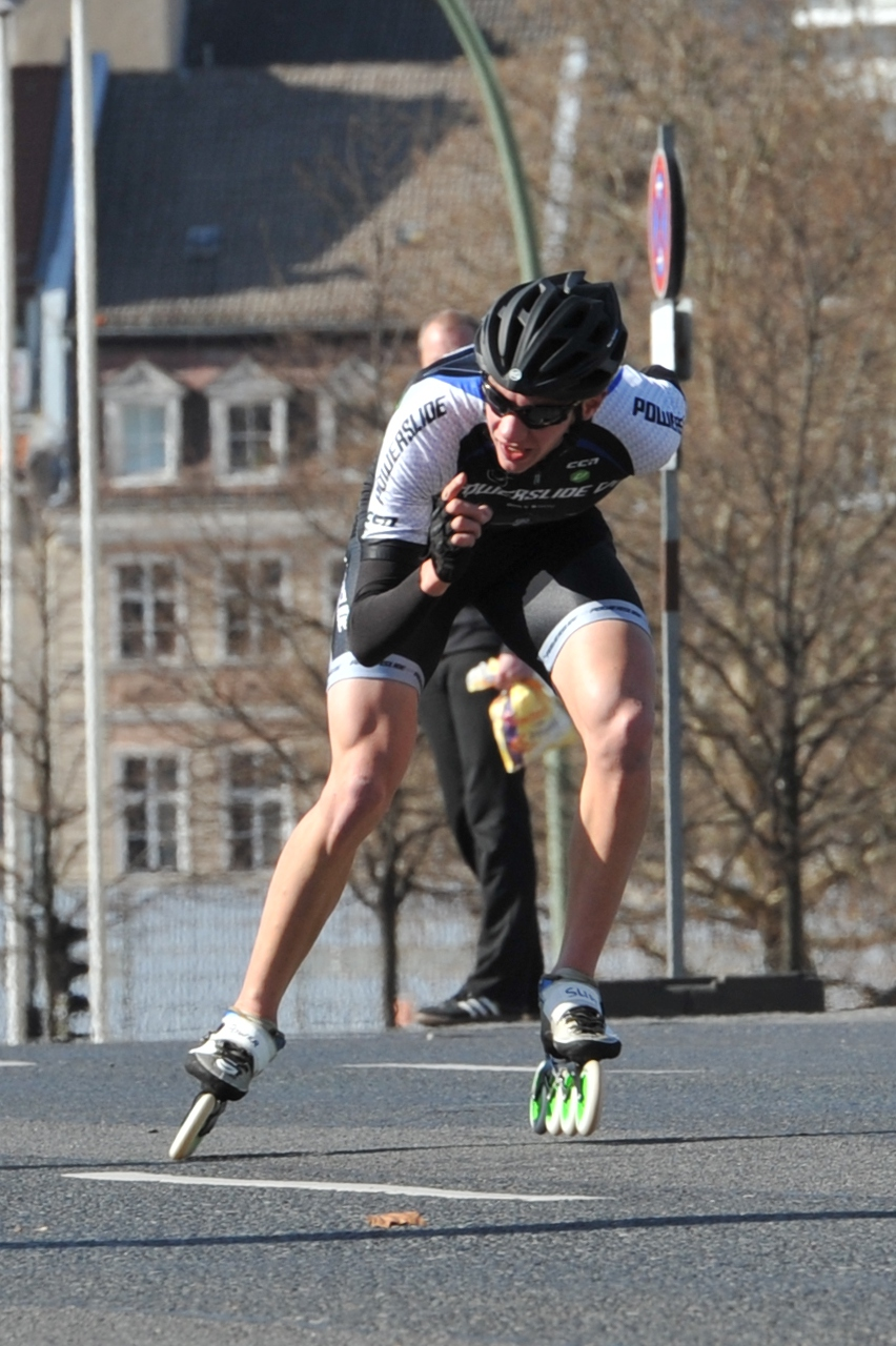 Bart Swings, Sieger des Berliner Halbmarathon Inlineskating bei km 20 The making of this document was supported by Wikimedia Austria.